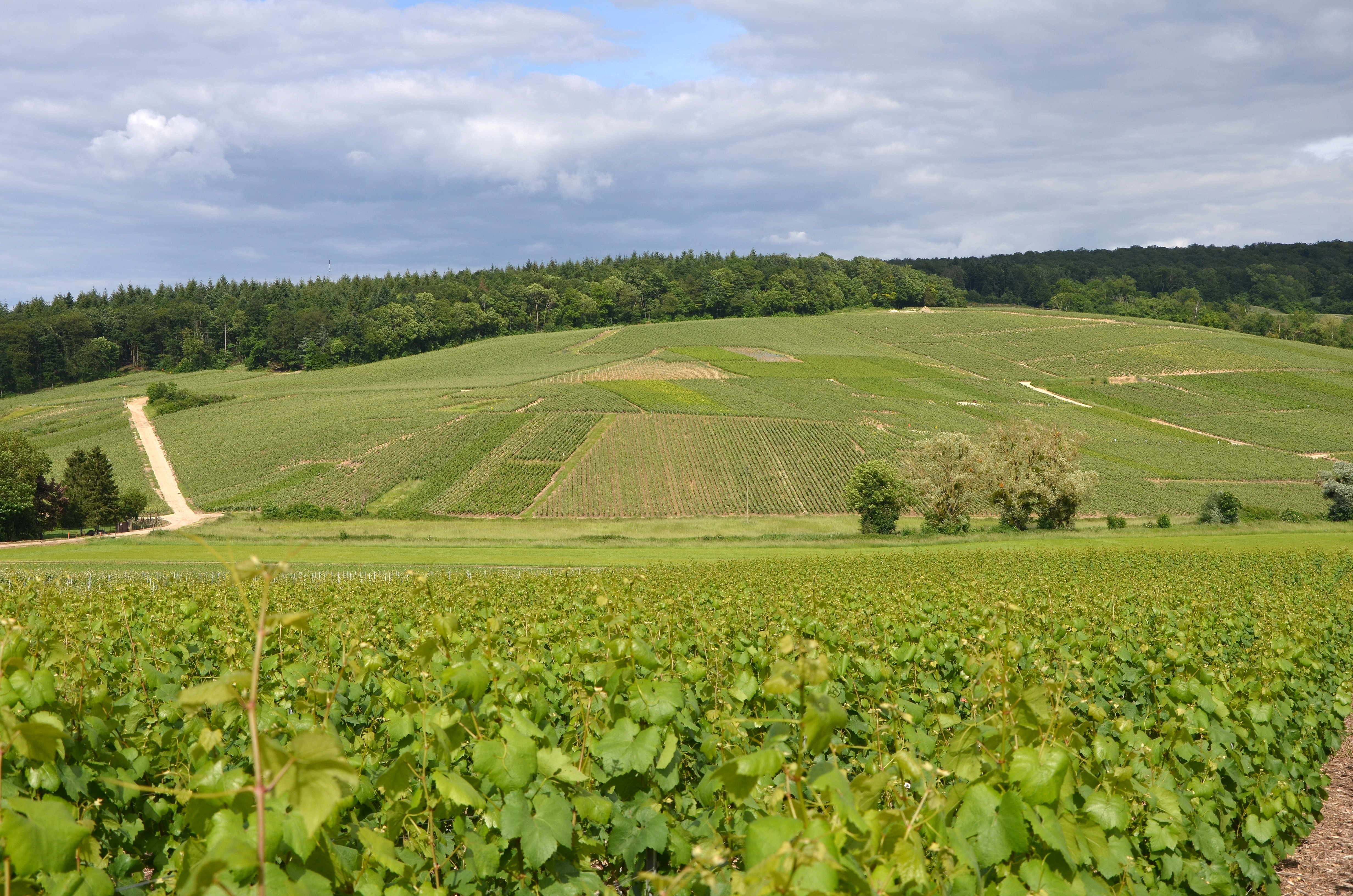 Vineyards in the eastern side of the valley above Damery, Marne, France